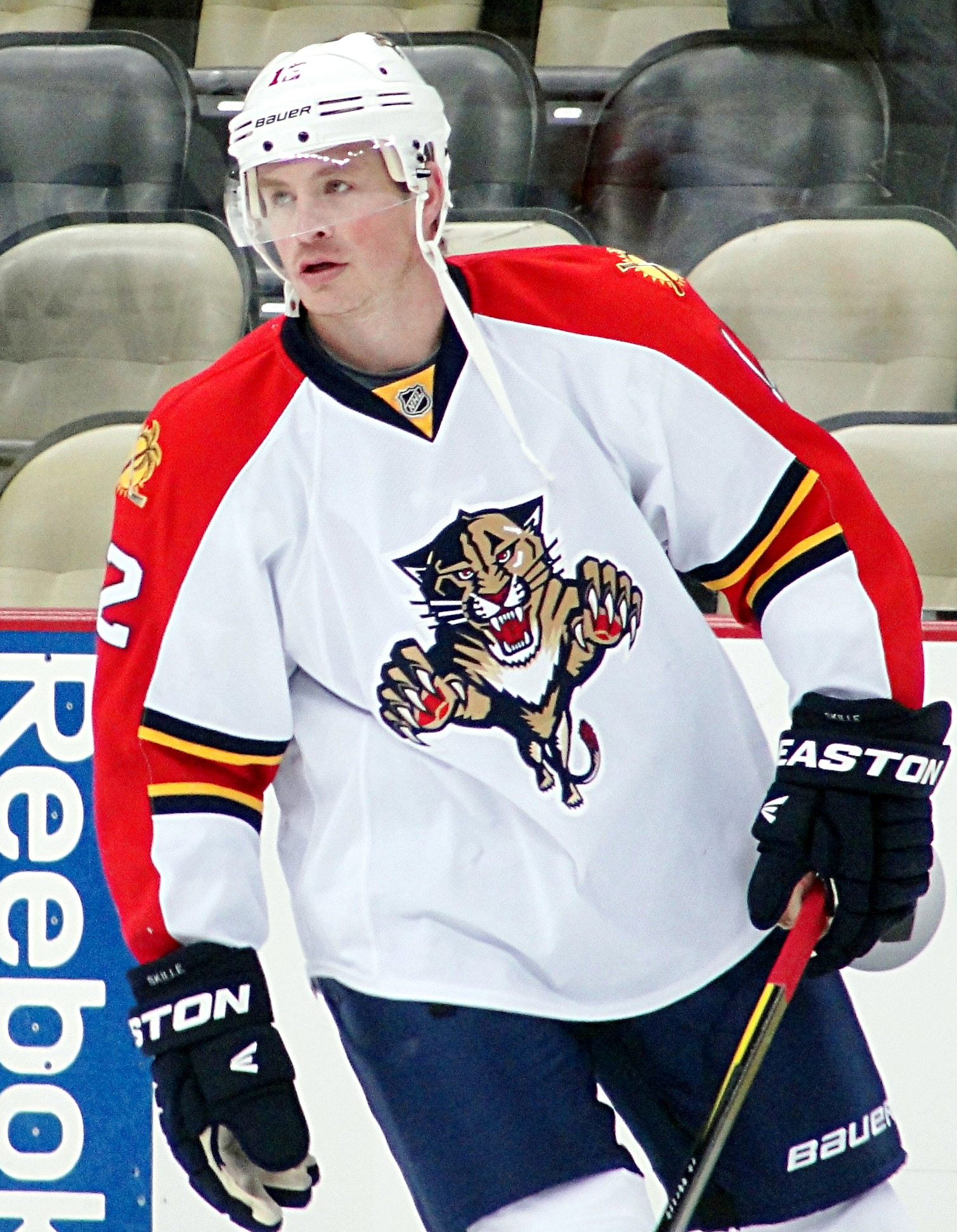 Florida Panthers forward Jack Skille skates against the Pittsburgh Penguins, March 9, 2012 at Consol Energy Center in Pittsburgh, PA.